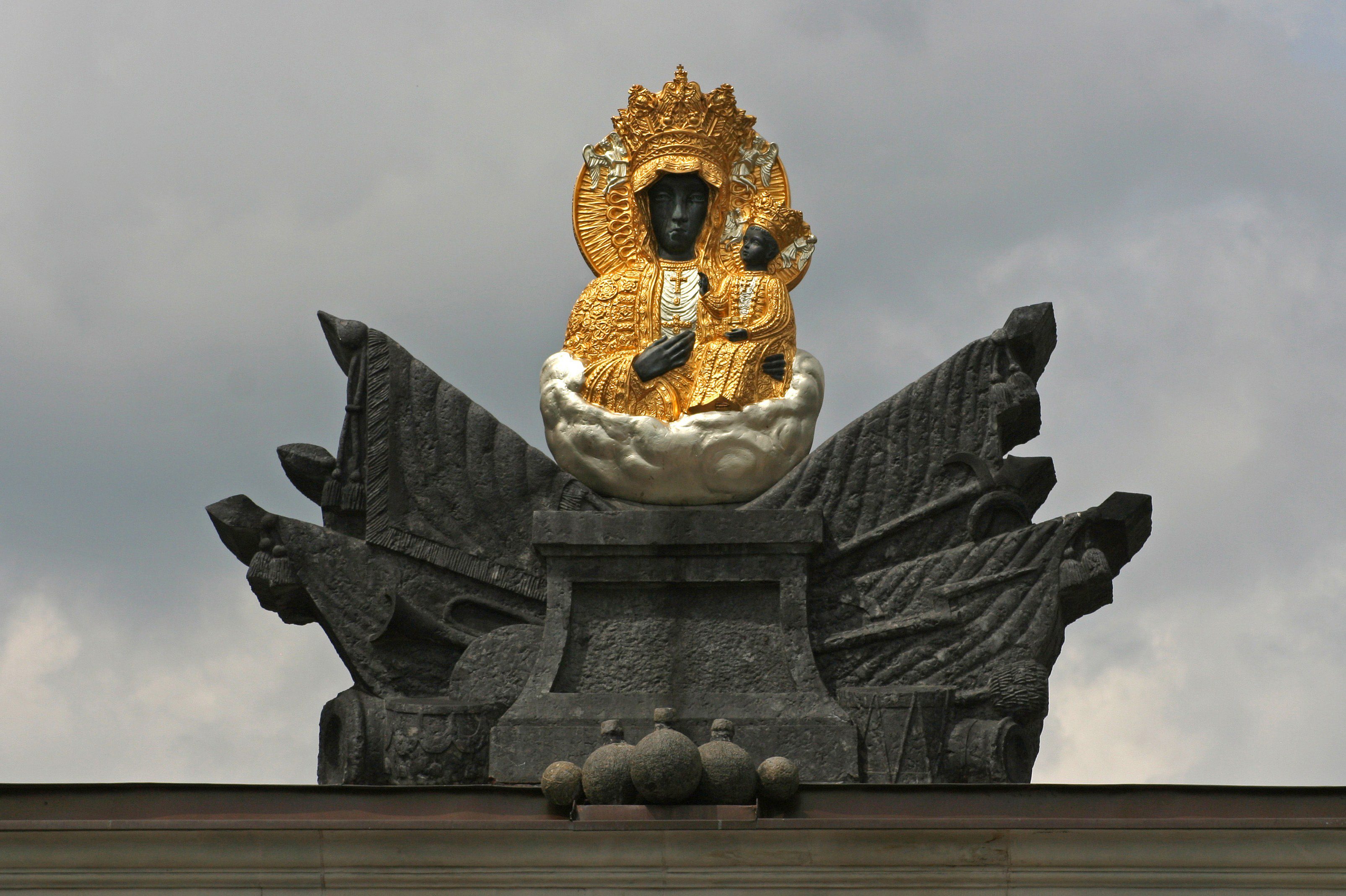 Detail over Gate of Virgin Mary Queen of Poland in Jasna Góra, Częstochowa.